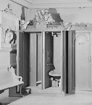 Confessional stall in the Catholic Churc Sankta Eugenia, Norra Smedjegatan 24, Stockholm, Sweden